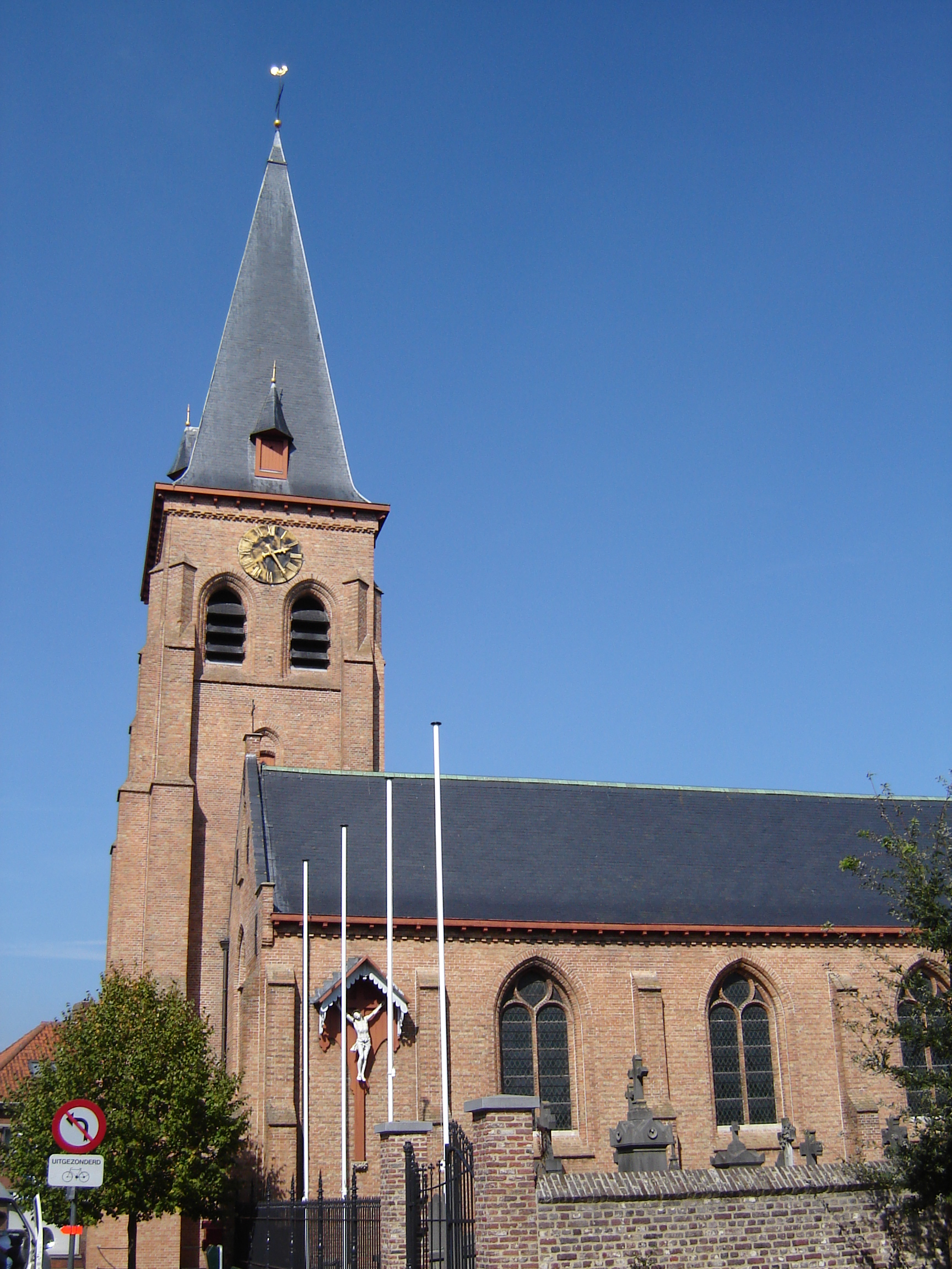 Church of Saint Amand in Beernem. Beernem, West Flanders, Belgium